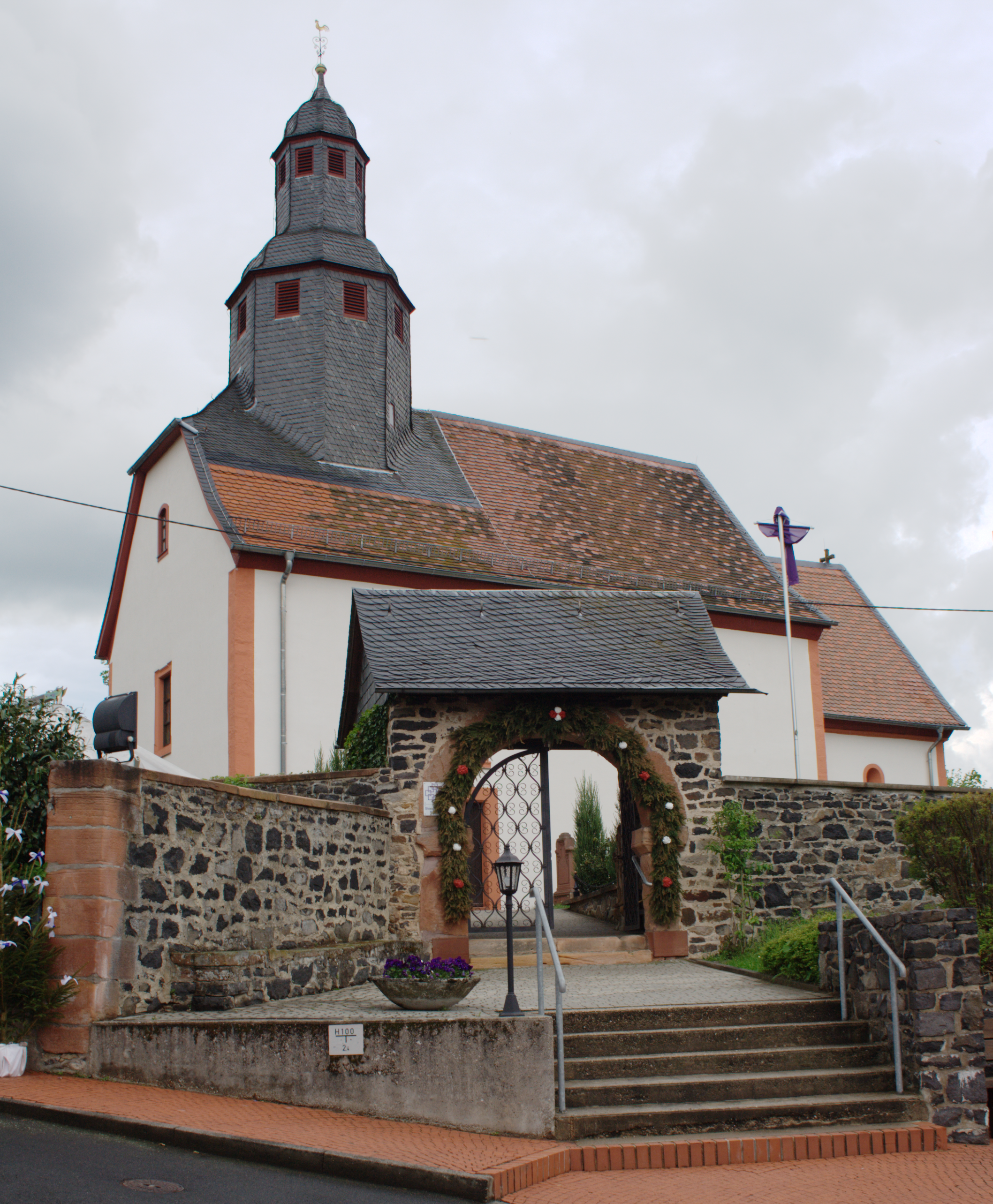 Church in Ortenberg Usenborn Am Lindenrain, Hesse, Germany